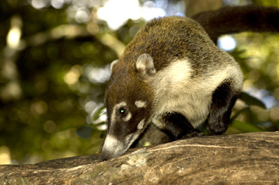 © Leonardo C. Fleck